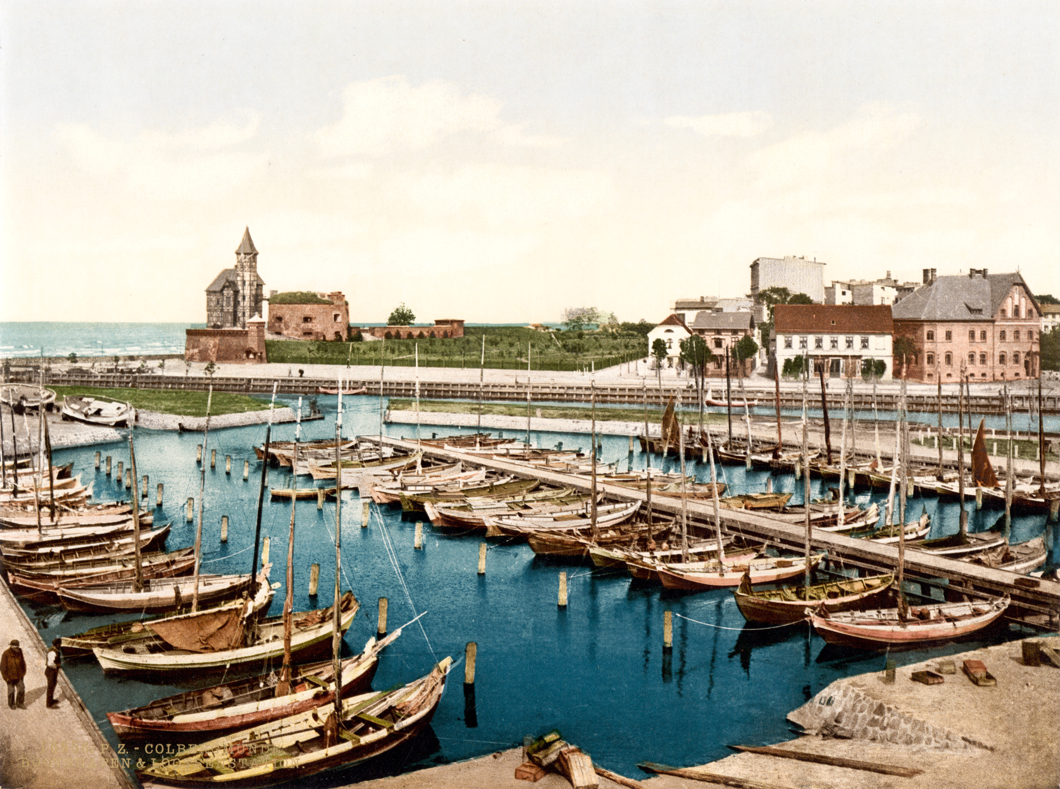 Harbor and pilot station in Kołobrzeg, Poland (before 1945 Kolberg). 1 photomechanical print : photochrom, color.